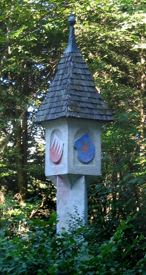 Medieval right of asylum boundary marker ("Freiungssäule") from approximately W; arms of four foundators' families, Aibling (right) and Säben (left); the other two sides bear the arms of Schlitters und Freundsberg families.